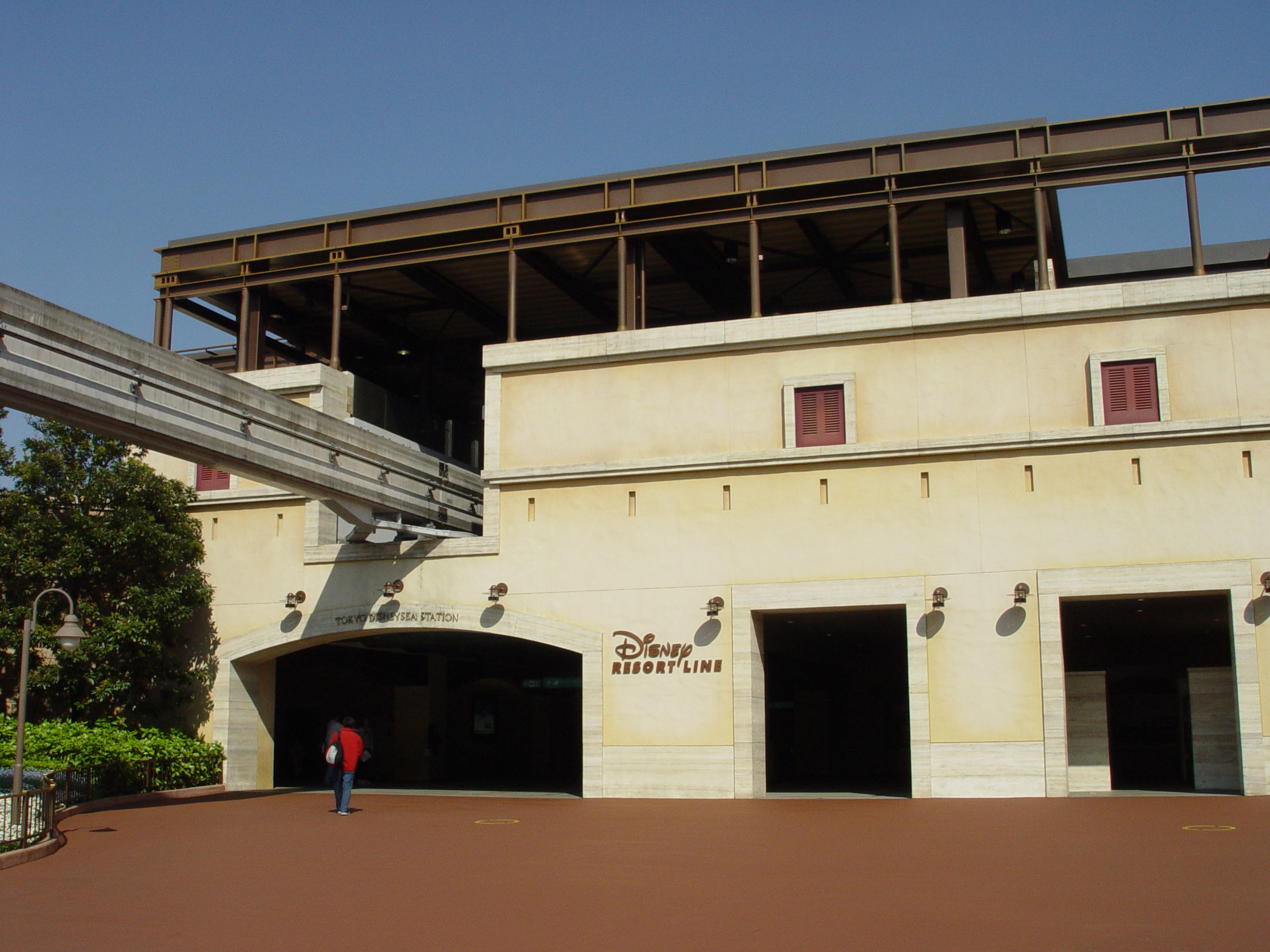 Tokyo Disneysea Station, Disney Resort Line